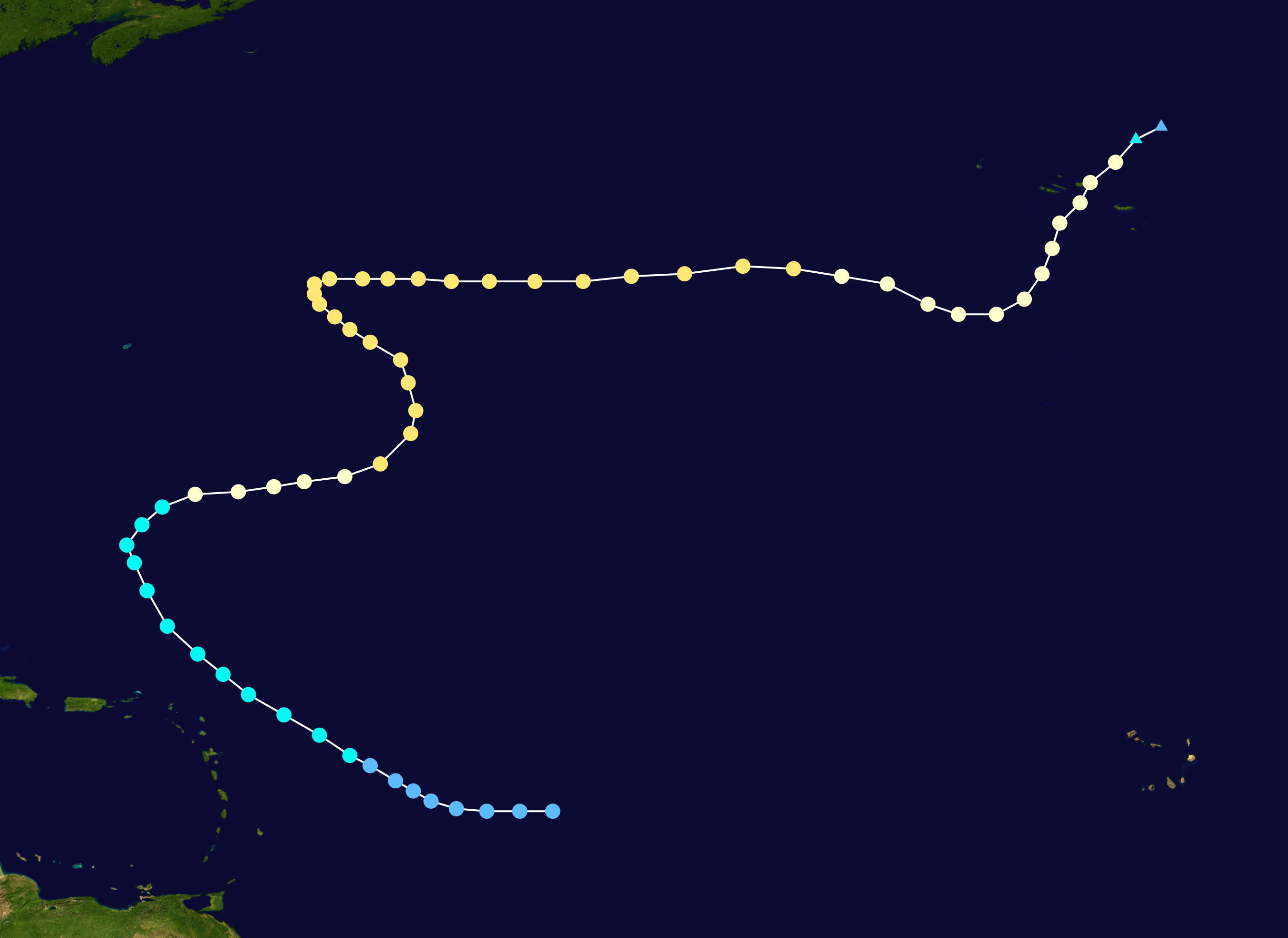 Hurricane Emmy (1976) track. Uses the color scheme from the Saffir-Simpson Hurricane Scale.